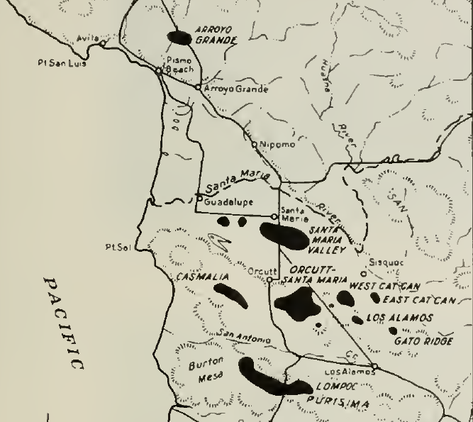 Map of Santa Maria District Oil and Gas Fields